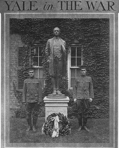 Cover of the Yale Alumni Weekly, November 23, 1917, showing statue of Nathan Hale flanked by two Yale servicemen. Wreath at base of statue. Image courtesy of the Yale University Manuscripts & Archives Digital Images Database. Retouched by MarmadukePercy.